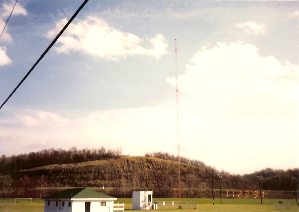 WOUB-AM (1340), Athens, Ohio transmitter tower located on Ohio University's South Green. Photo was taken looking southeast at the tower on November 23, 1991.